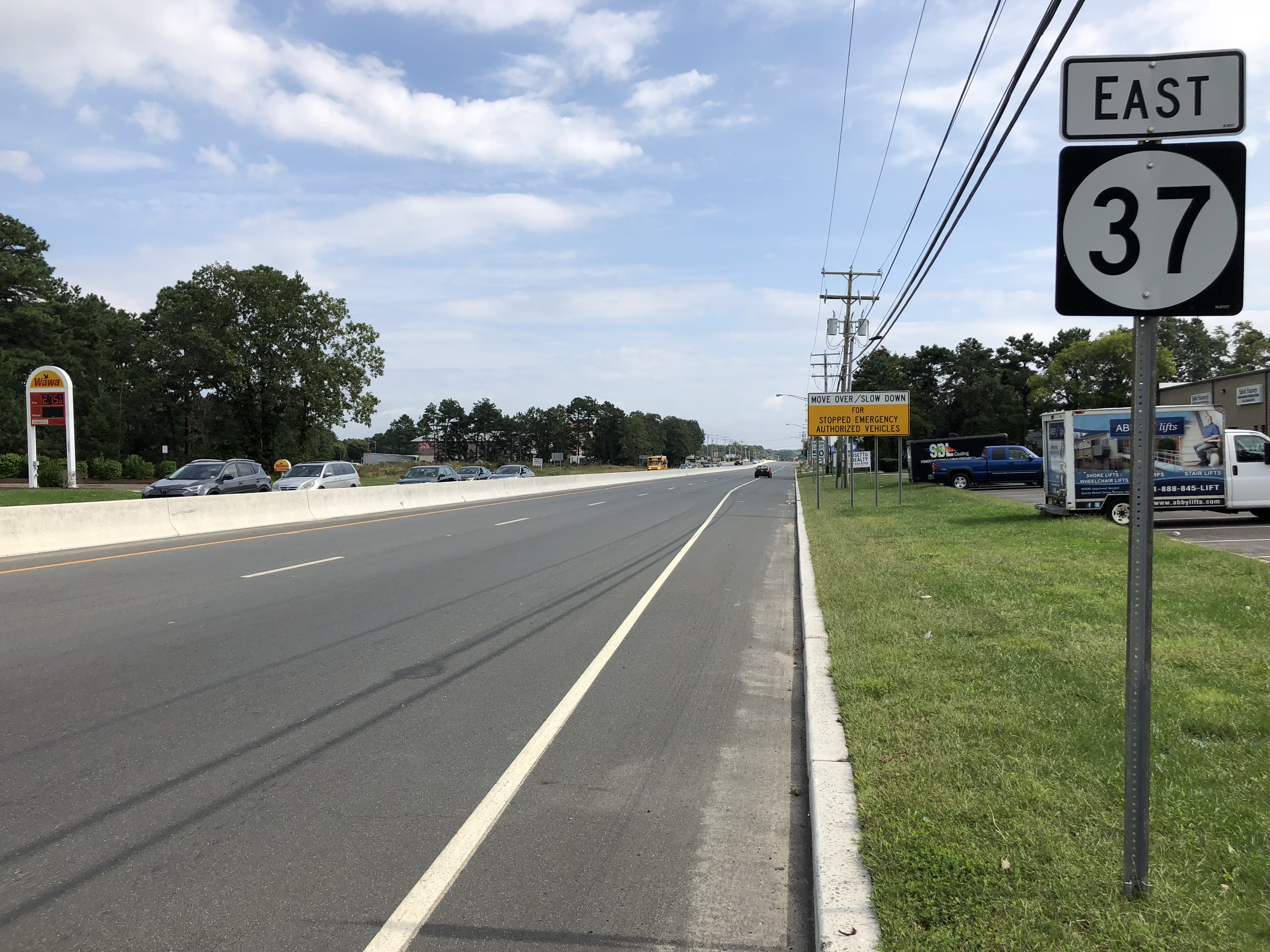 View east along New Jersey State Route 37 (Lakehurst Road) just east of Northampton Boulevard in Toms River Township, Ocean County, New Jersey